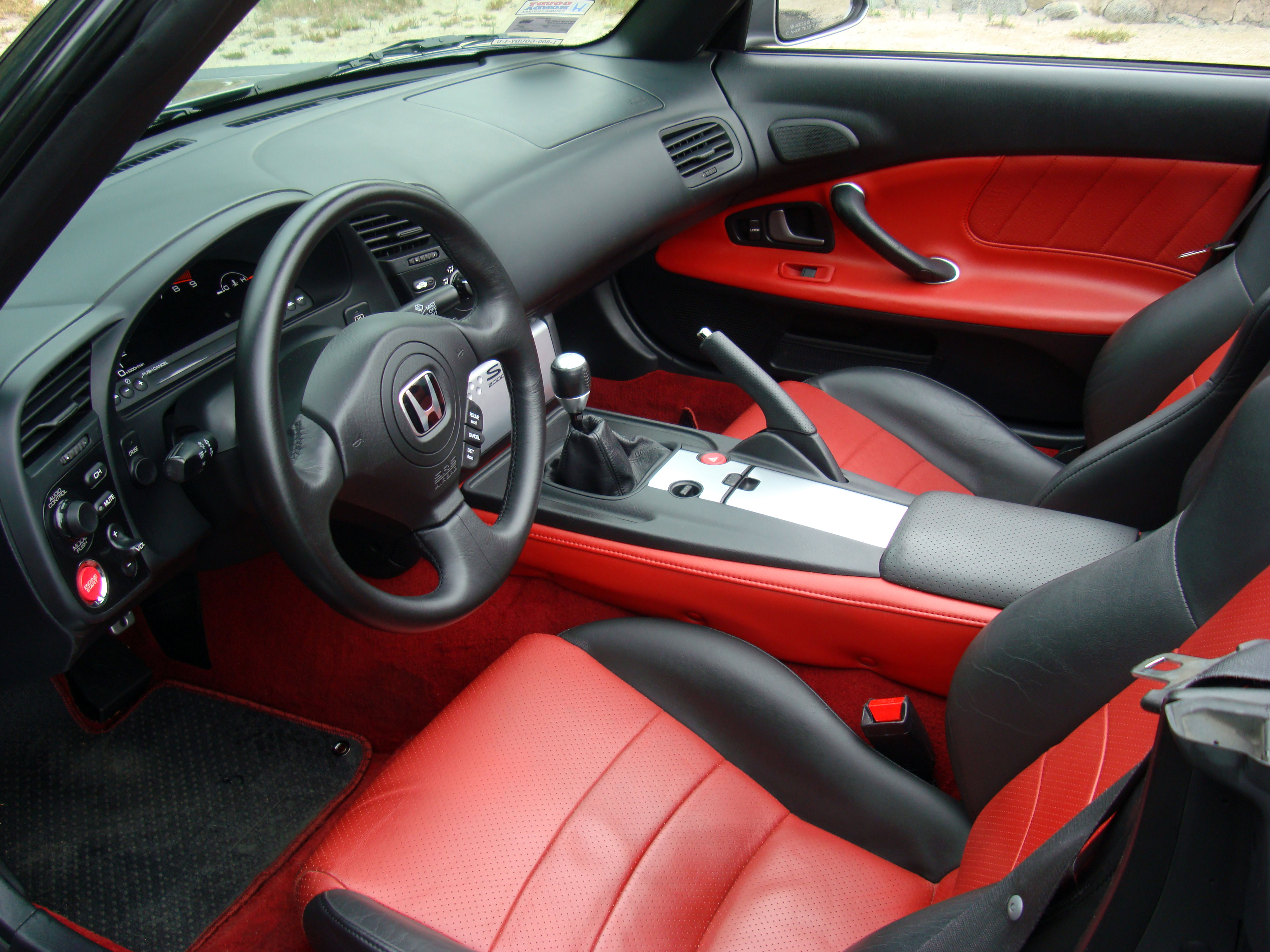 2005 Honda S2000. Camera used was a Sony Ericsson DSC-W200.